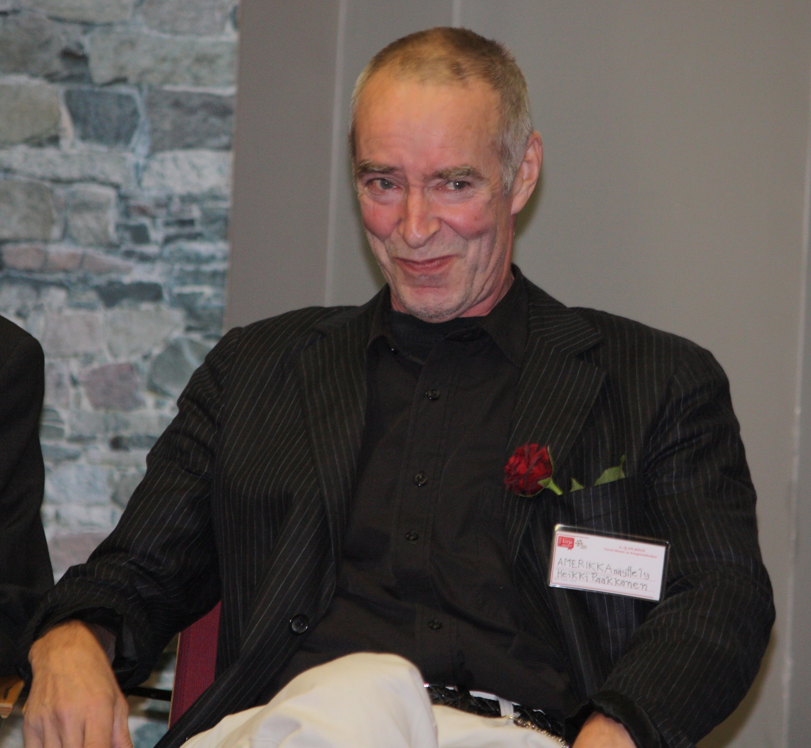 Finnish comics artist and illustrator Heikki Paakkanen at the Turku Book Fair 2010